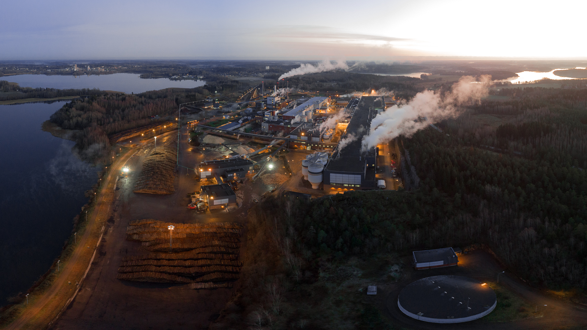 Sappi paper mill, Kirkniemi, Lohja, Finland